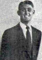 Lew Hoad. From a picture of young Australian sports stars profiled. It was published in the "Simmo" book of Bob Simpson, printed in an Australian magazine in 1953